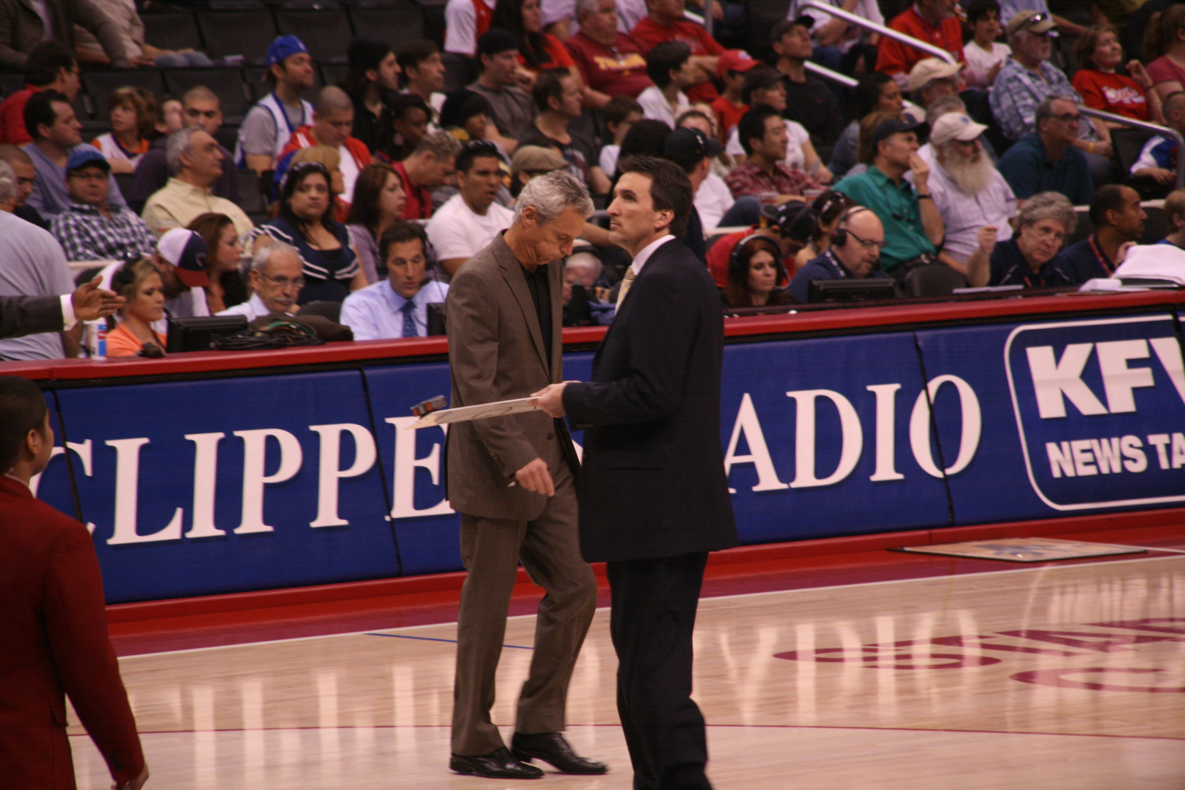 Los Angeles Clippers coach Vinny Del Negro on the court in 2011 for a game vs Indiana Pacers.